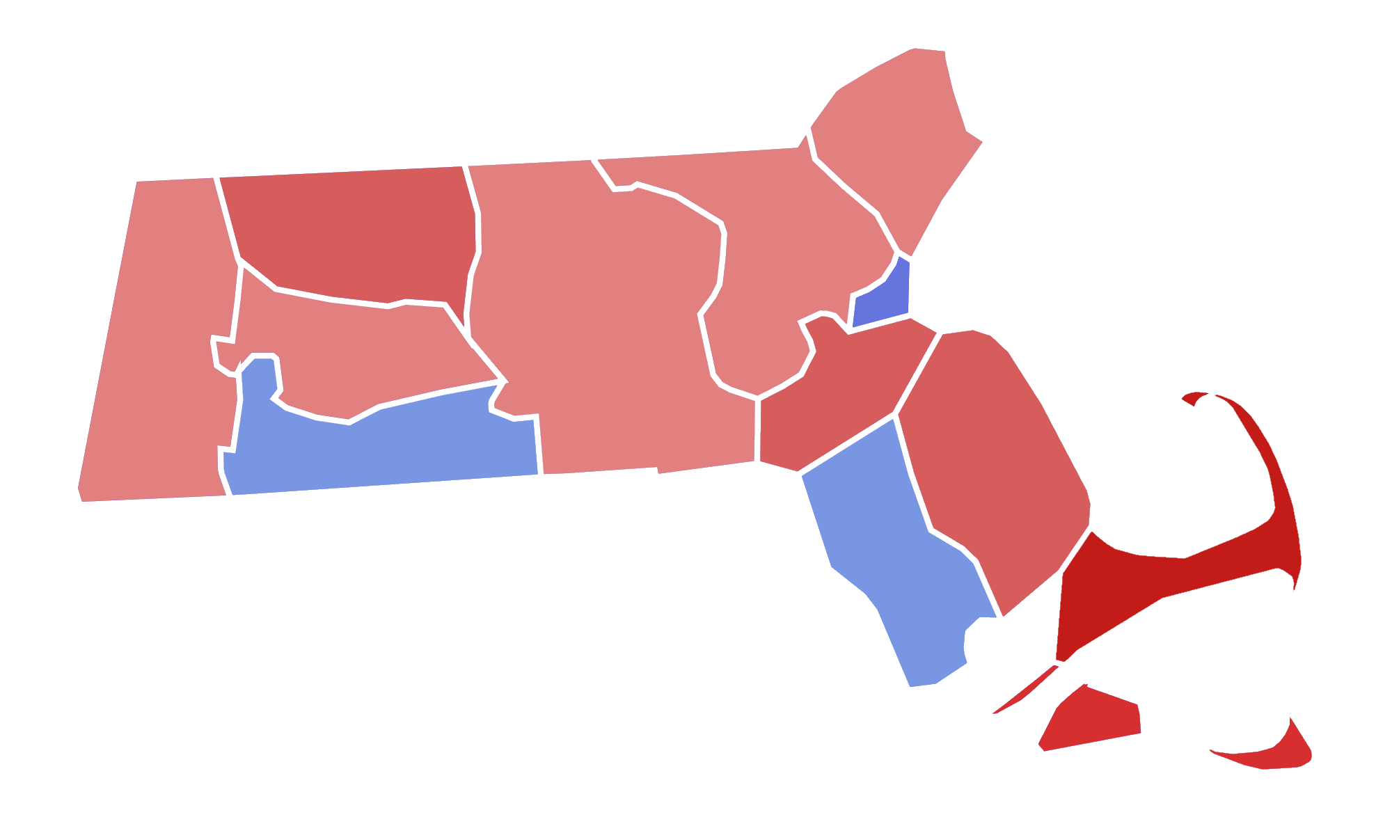 1954 US Senate elections in Massachusetts by county.